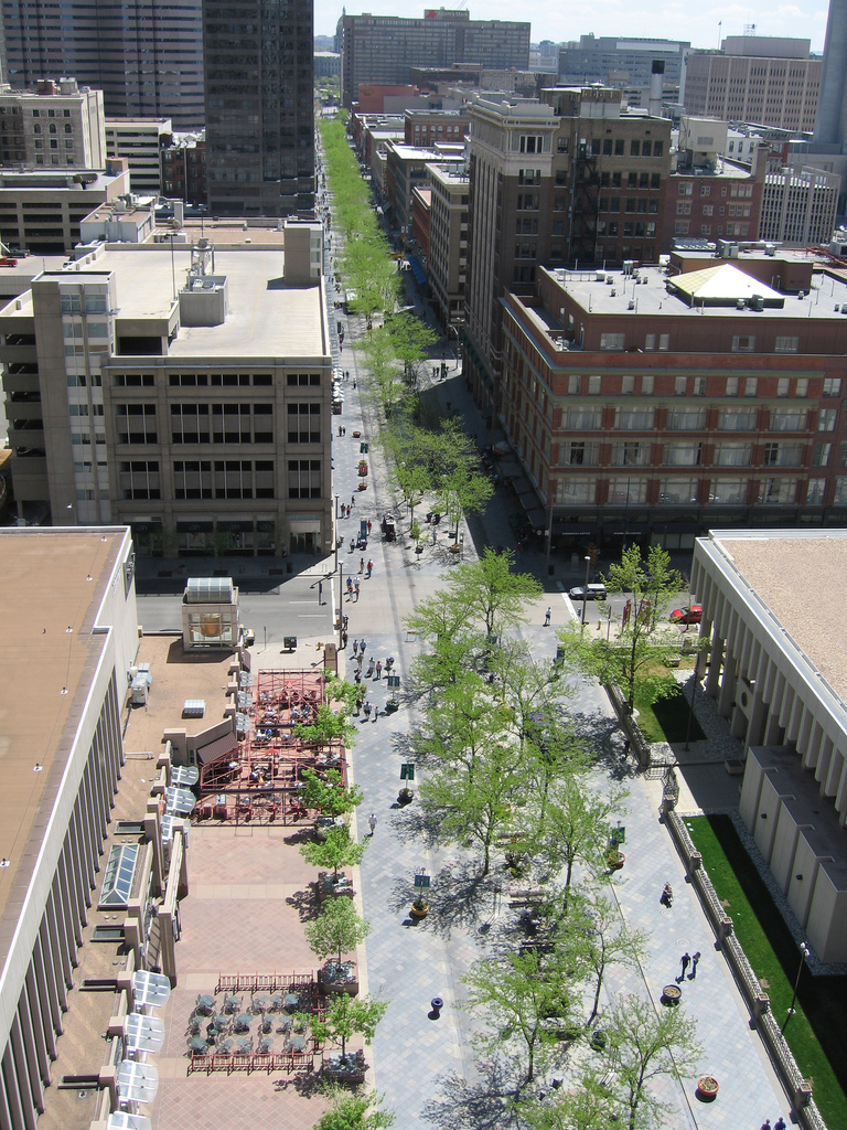 Photo of 16th Street mall in Denver, CO. Taken by flickr user bartlec, licensed CC-BY-2.0 as of 2007-02-17.